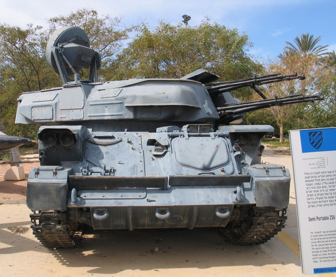 Description: ZSU-23-4 Shilka SPAAG at Muzeyon Heyl ha-Avir, Hatzerim airbase, Israel. 2006. Source: Photo by me, User:Bukvoed.